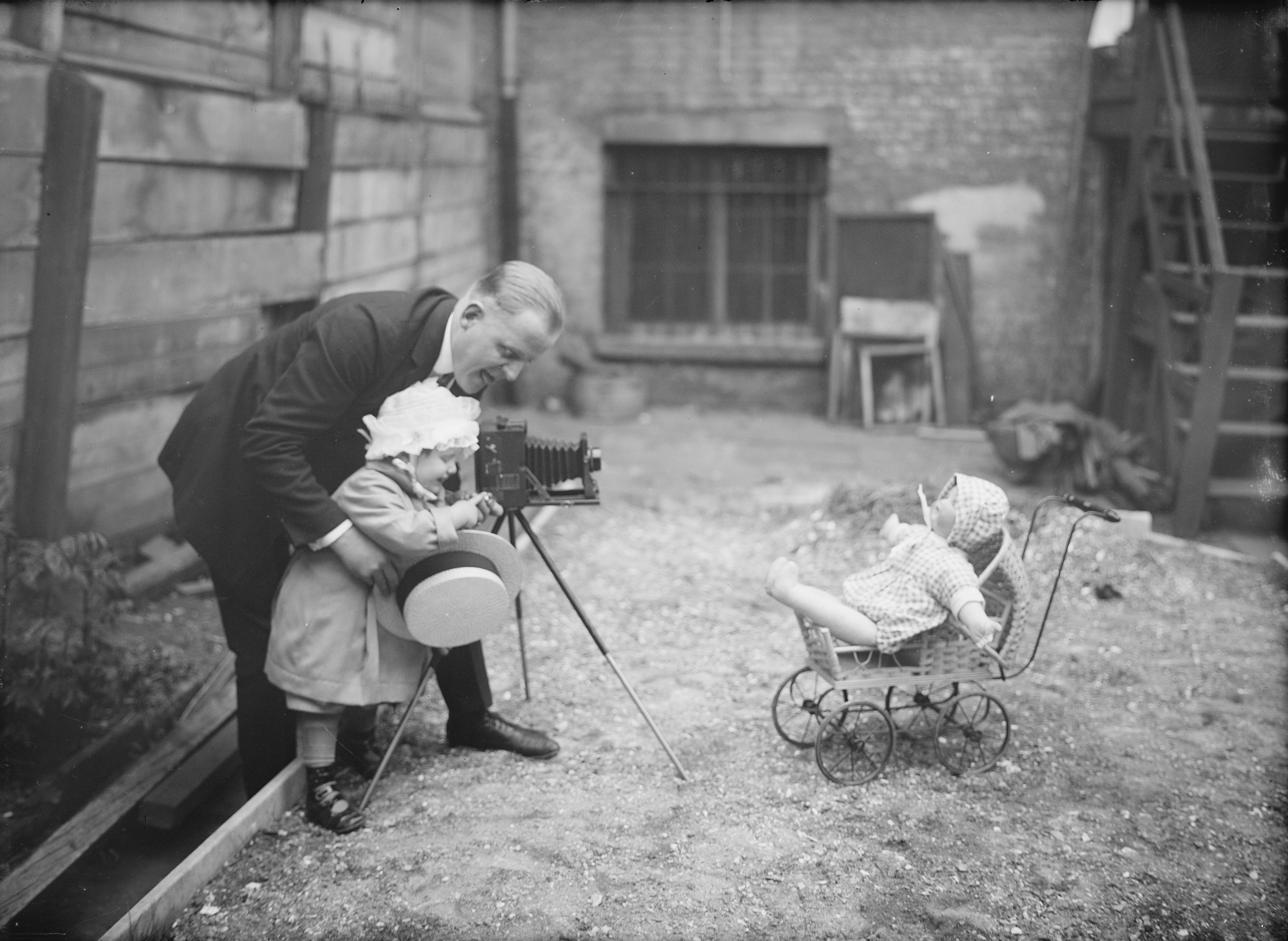 Clarinetist Ross Gorman and his daughter with camera aimed at doll in pram. Exterior, New York City.